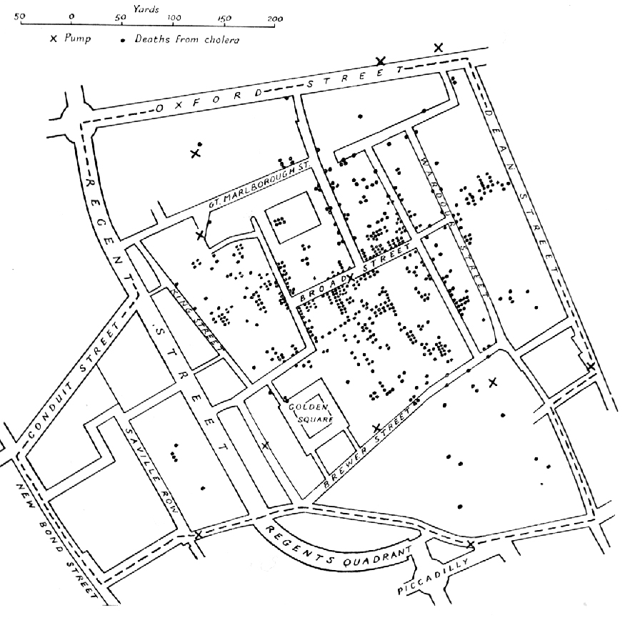 A variant of the original map drawn by Dr. John Snow (1813-1858), a British physician who is one of the founders of medical epidemiology, showing cases of cholera in the London epidemics of 1854, clustered around the locations of water pumps.